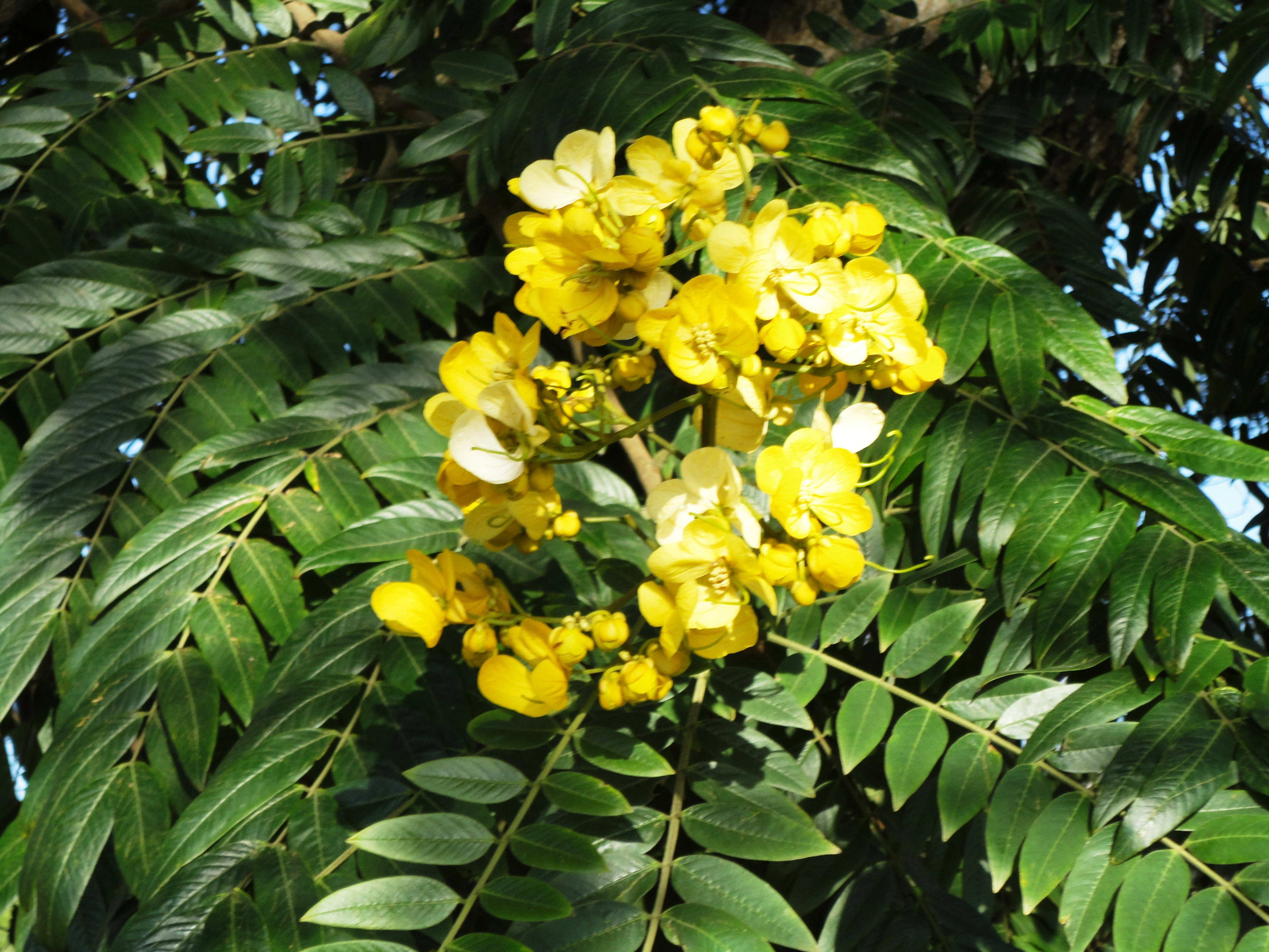 Inflorescence of a Monkey pod in Kloof, KwaZulu-Natal